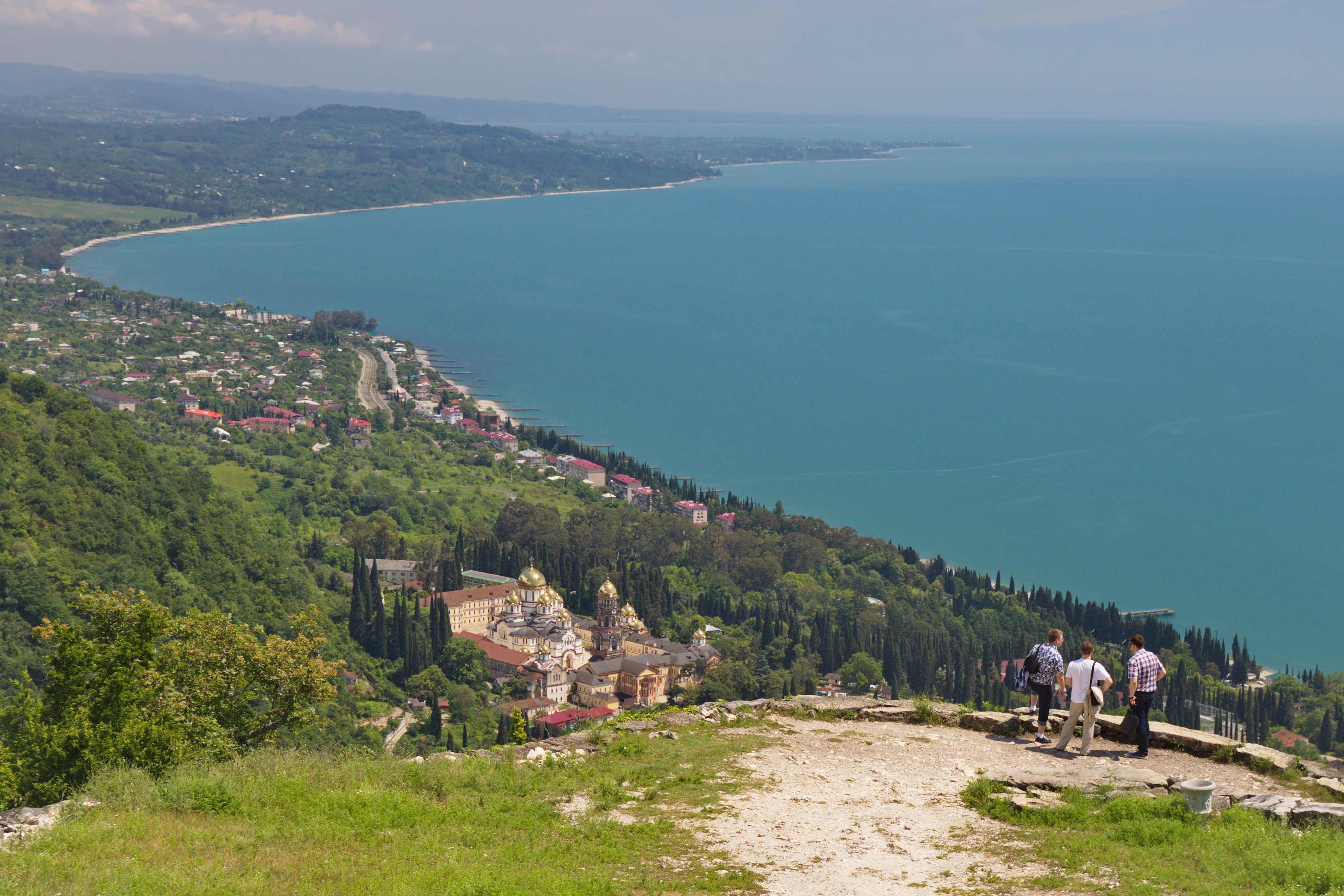 View from the peak of Iverian Mountain. New Athos, Gudauta District, Abkhazia.